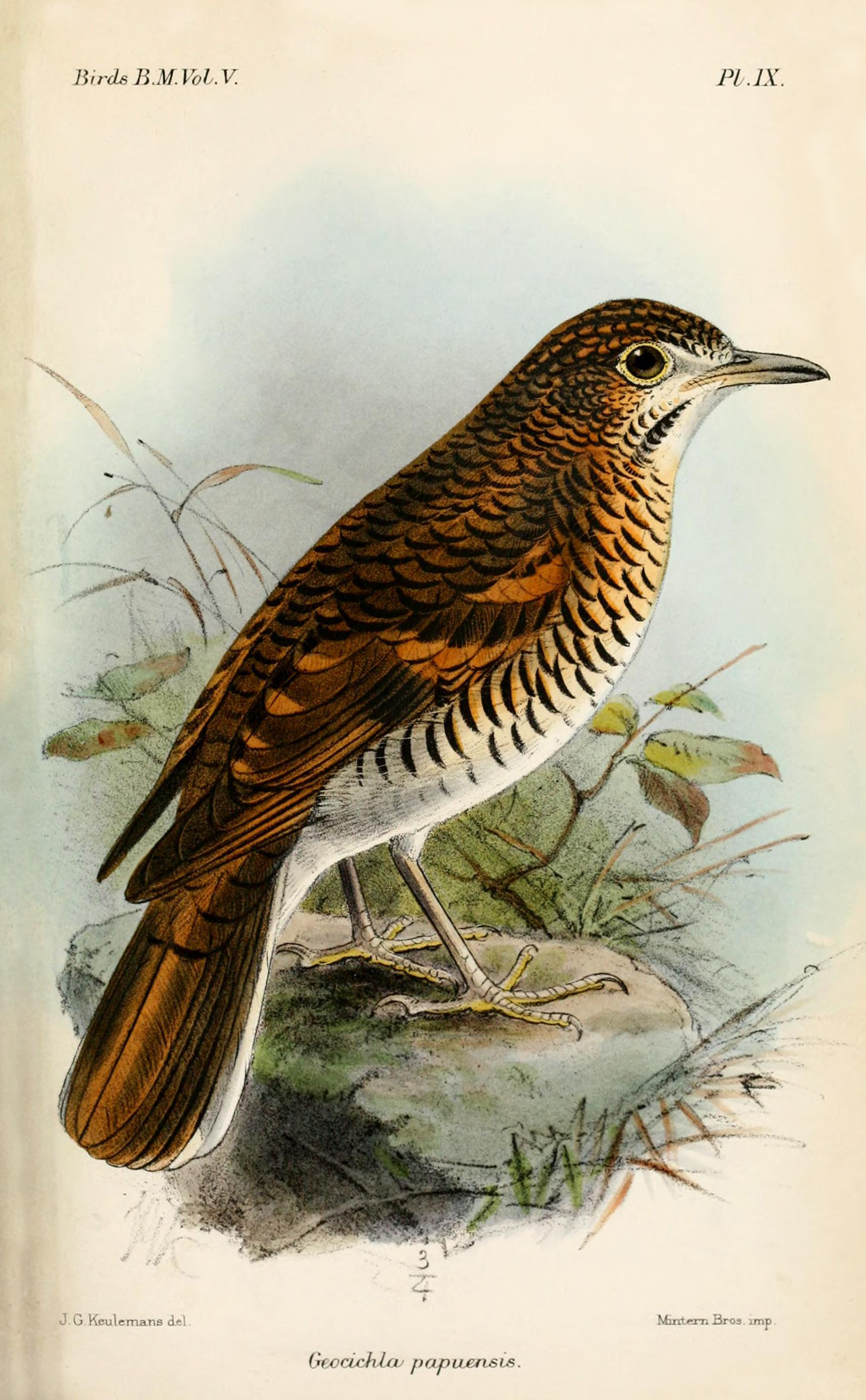 Geocichla papuensis = Zoothera heinei papuensis, Russet-tailed Thrush ssp.